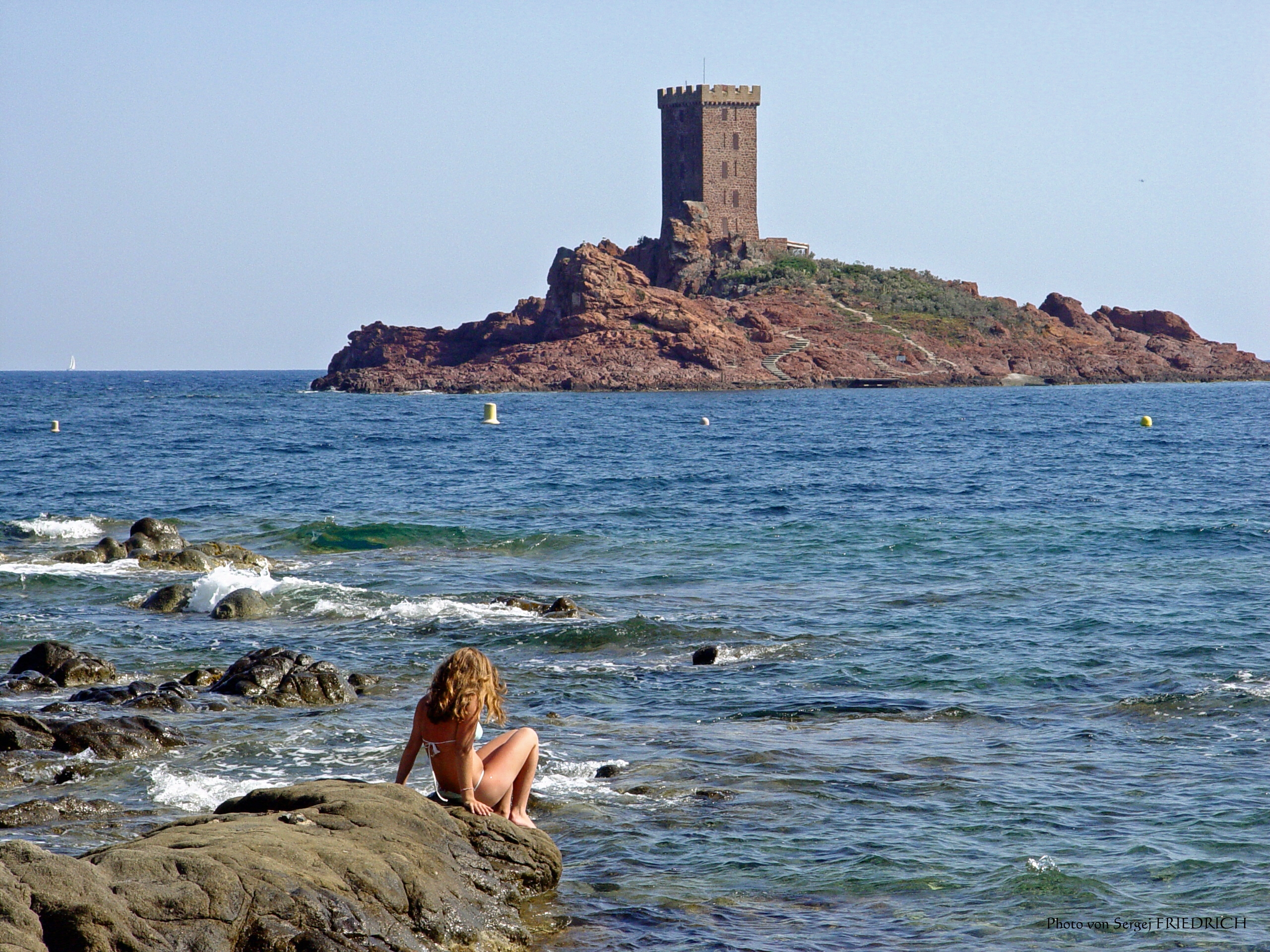 Beach in front of the island of Île d'Or near Saint-Raphaël on a summer day